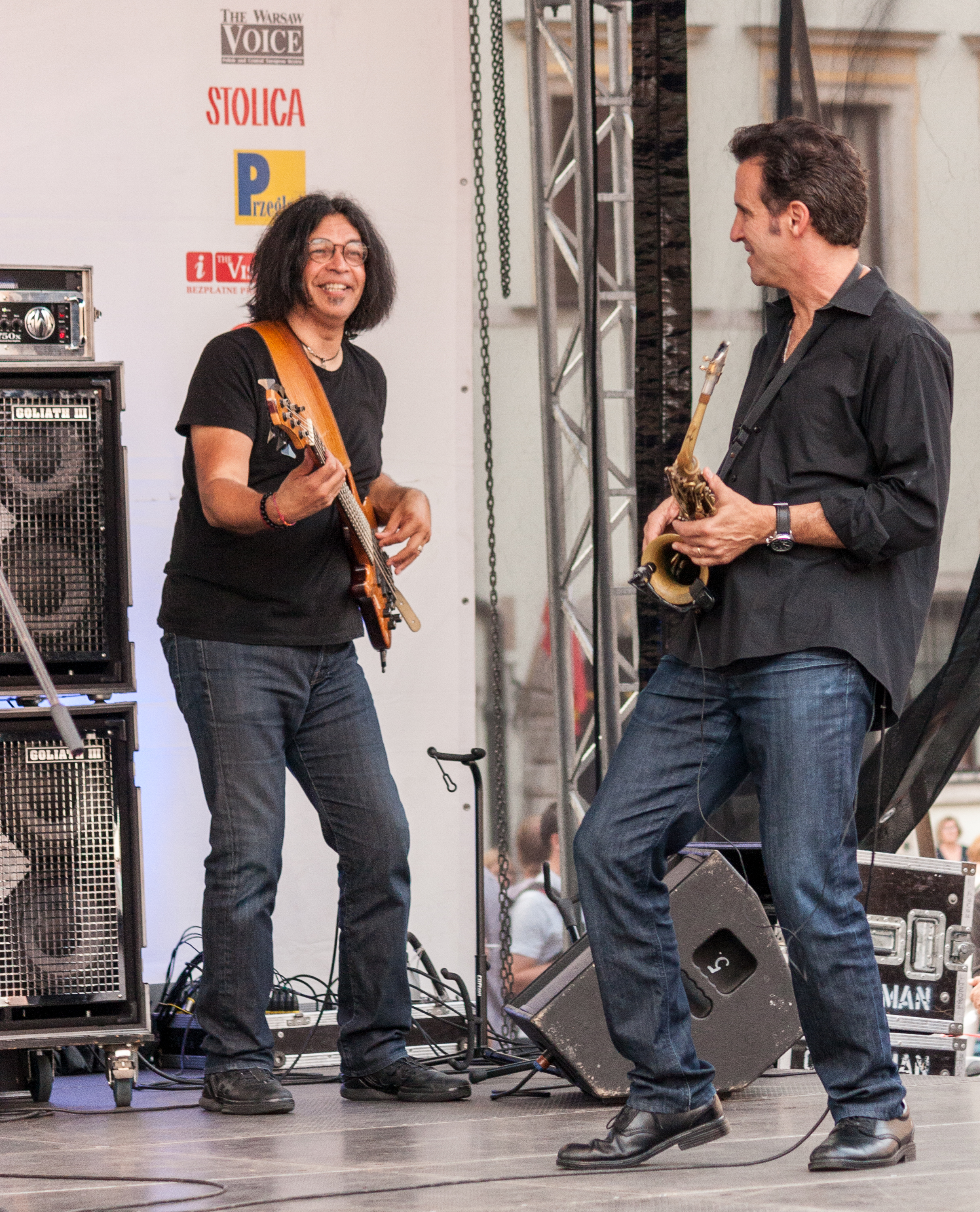 Jeff Lorber feat. Eric Marienthal - Jazz na Starówce festival 2012-08-04, Warsaw, Poland